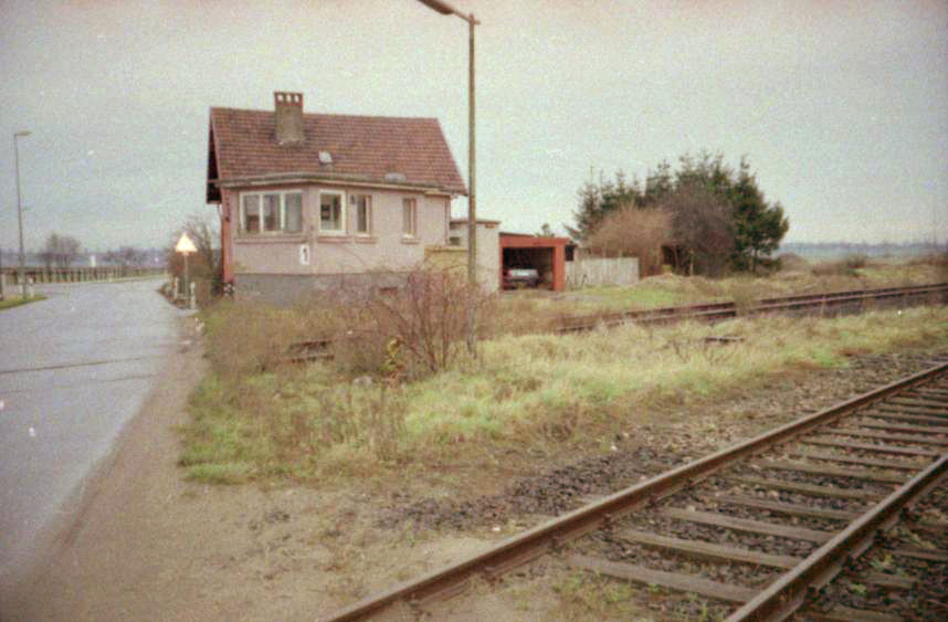 (Auto-translation): "Crossing the bridge road routes from Düren to Distelrath (foreground) and Euskrichen (background) with barriers Item 1"